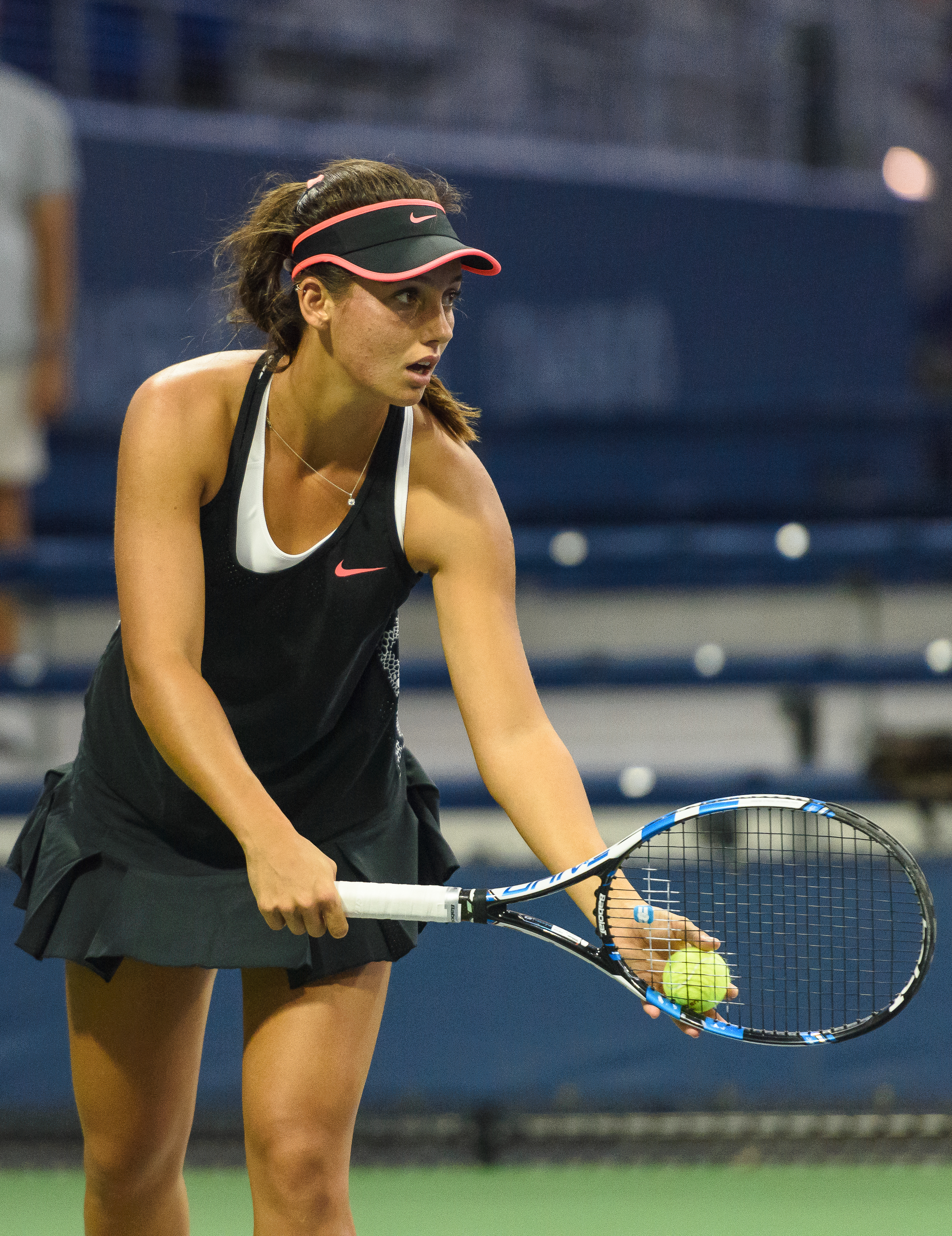 August 27, 2015 Court 6 Flushing, NY